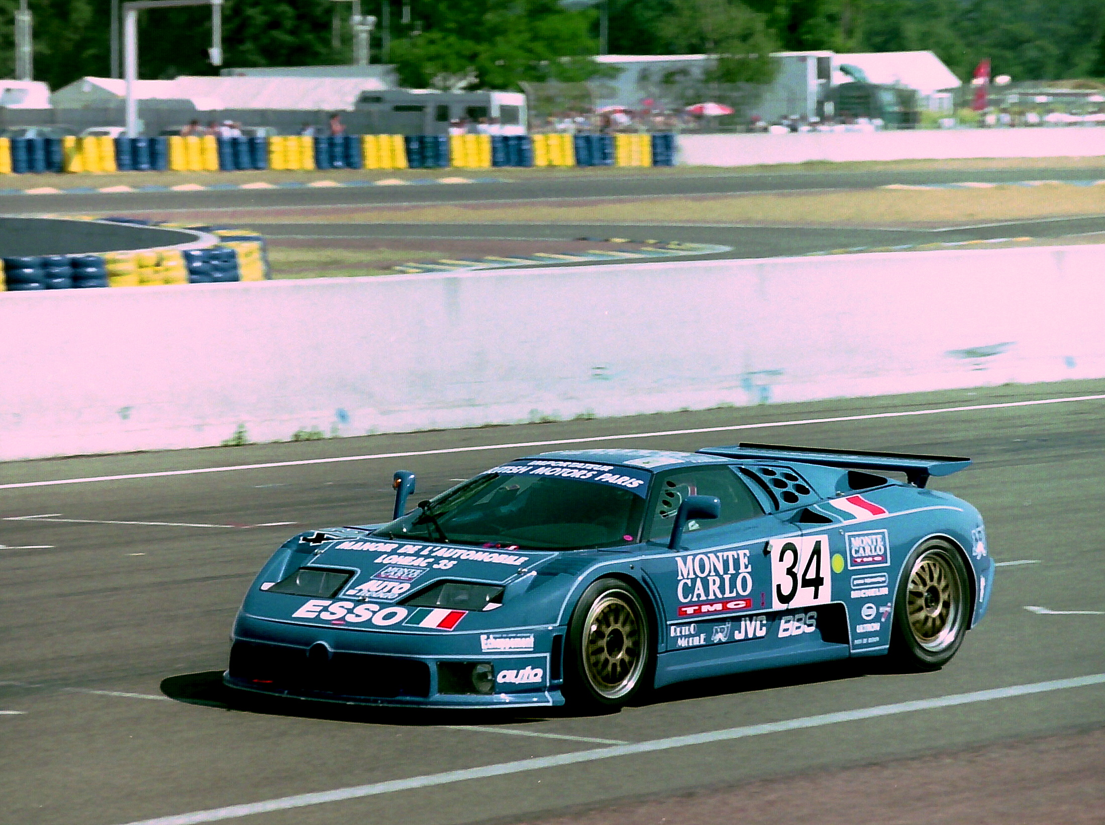 Bugatti EB110 SS - Alain Cudini, Eric Helary & Jean-Christophe Boullion heads onto the pit straight at the 1994 Le